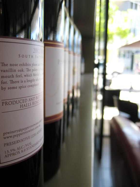 The wine shelf at Saltbox